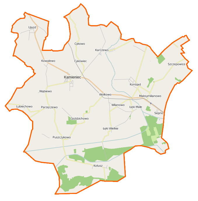 Map of Gmina Kamieniec, Poland This map of Kamieniec (gmina) was created from OpenStreetMap project data, collected by the community. This map may be incomplete, and may contain errors. Don't rely solely on it for navigation. Border coordinates52.221716.3768←↕→16.610052.0768